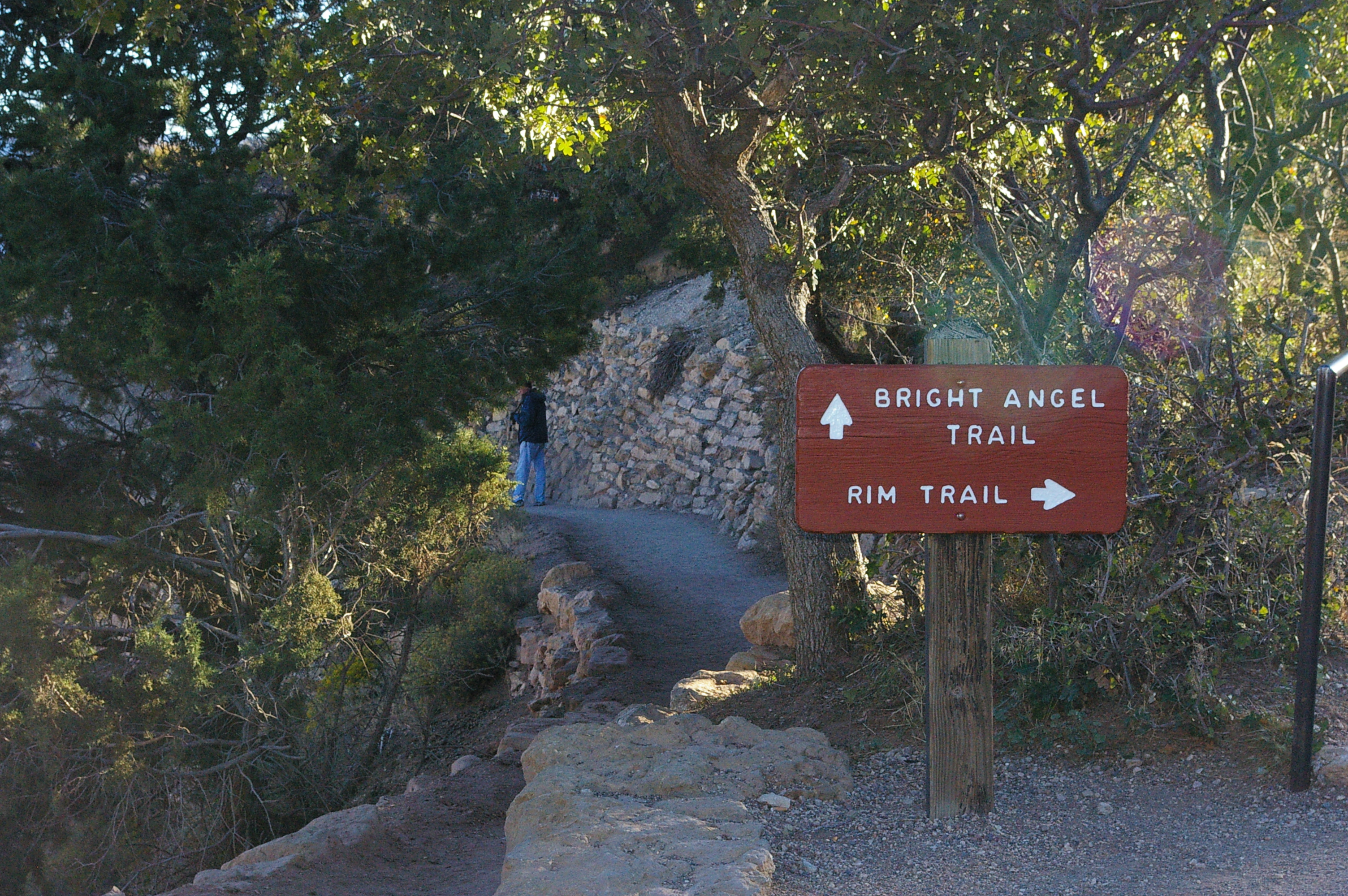 Beginning of the Bright Angel Trail at South Rim, Grand Canyon National Park.